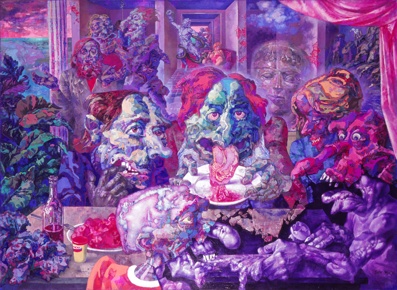 Zbyšek Sion, Amora (1974-75)